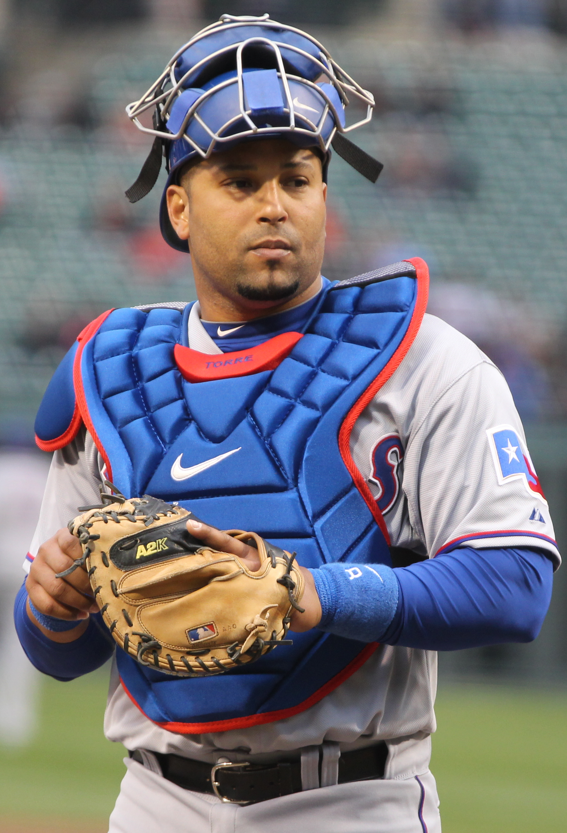 Yorvit Torrealba